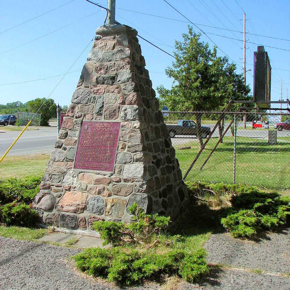 Carrying Place (City of Prince Edward County), Ontario, Canada